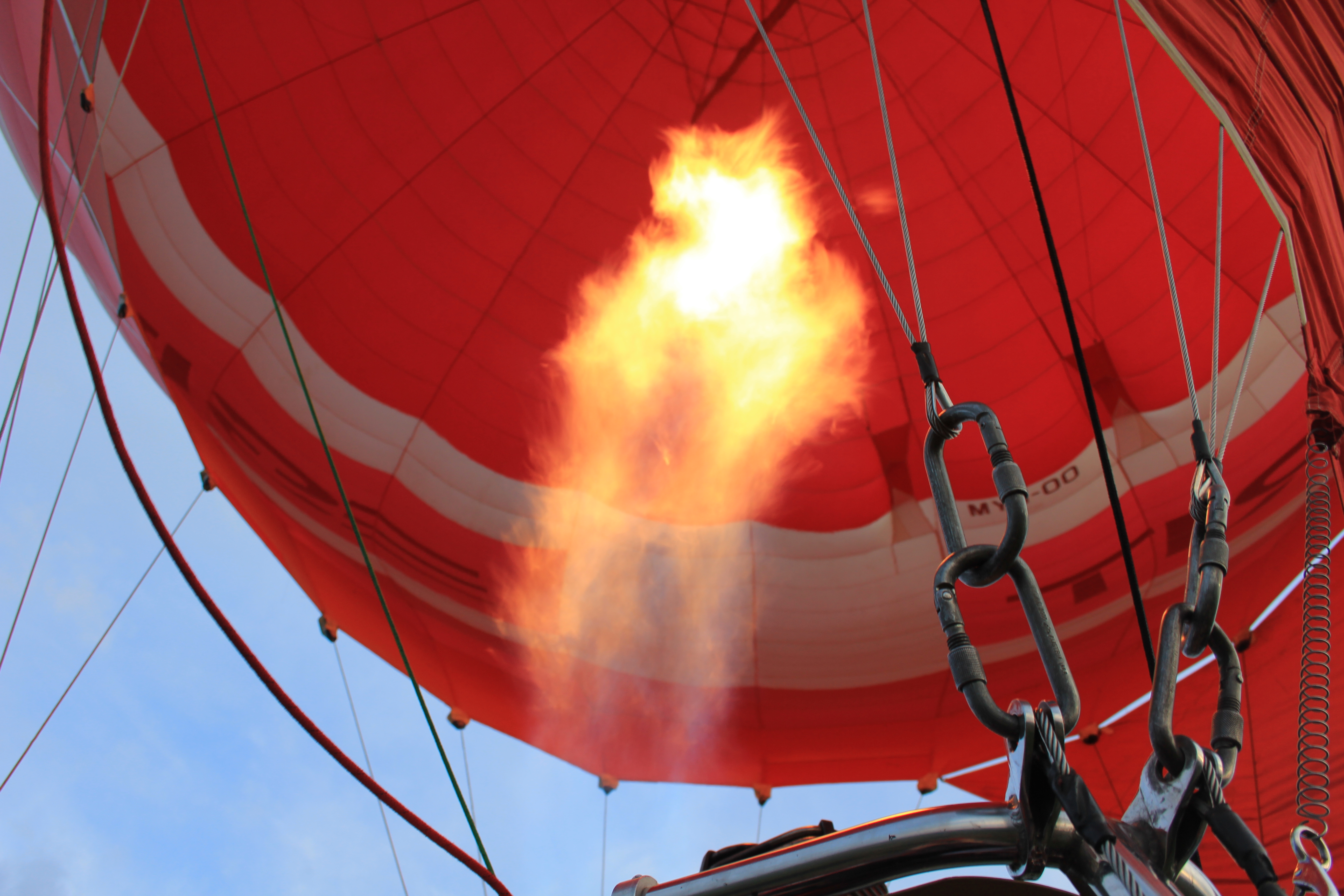 Flames from burner in hot air balloon